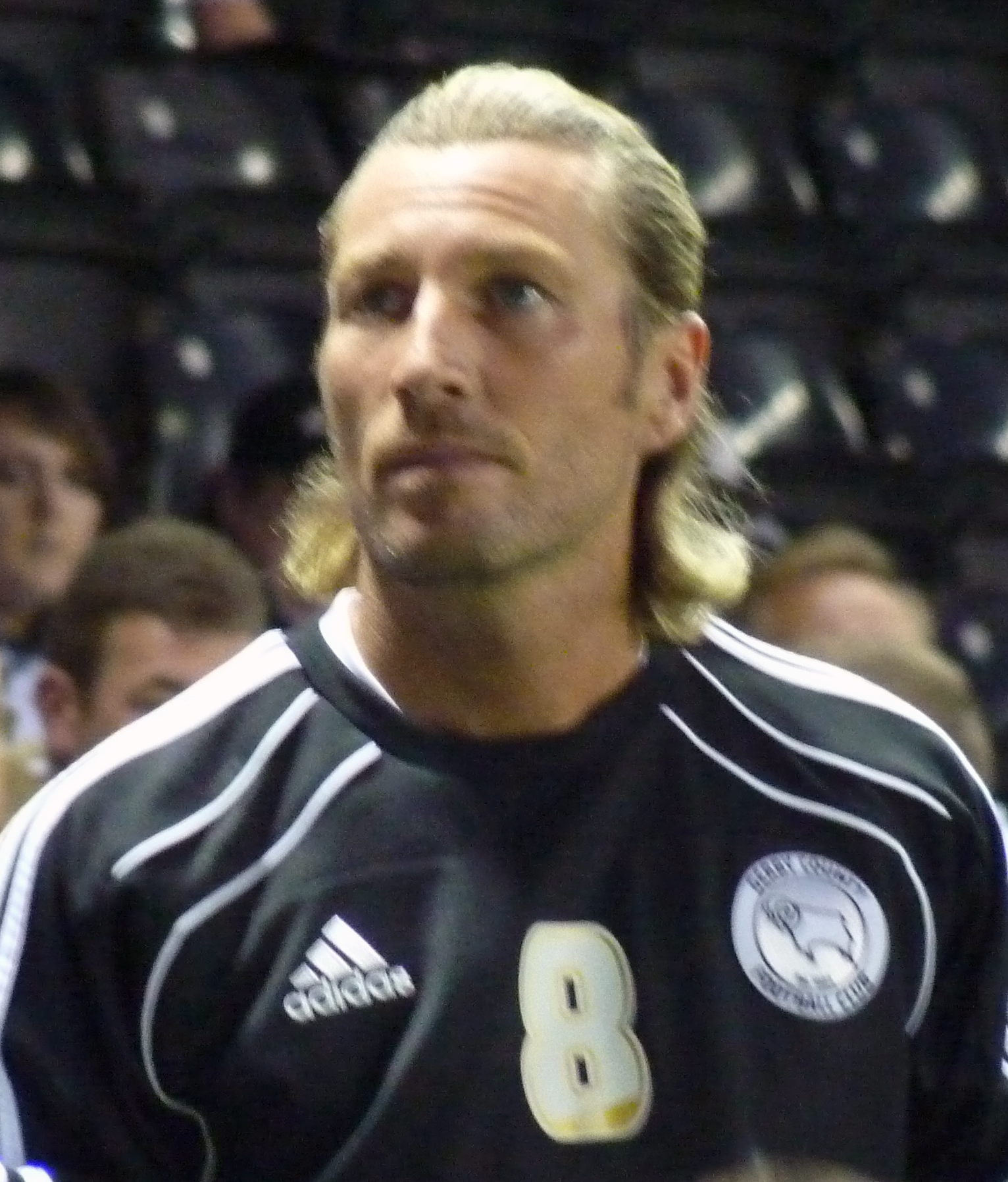 crop of Robbie Savage from image in front of stand at Derby - Middlesboro game